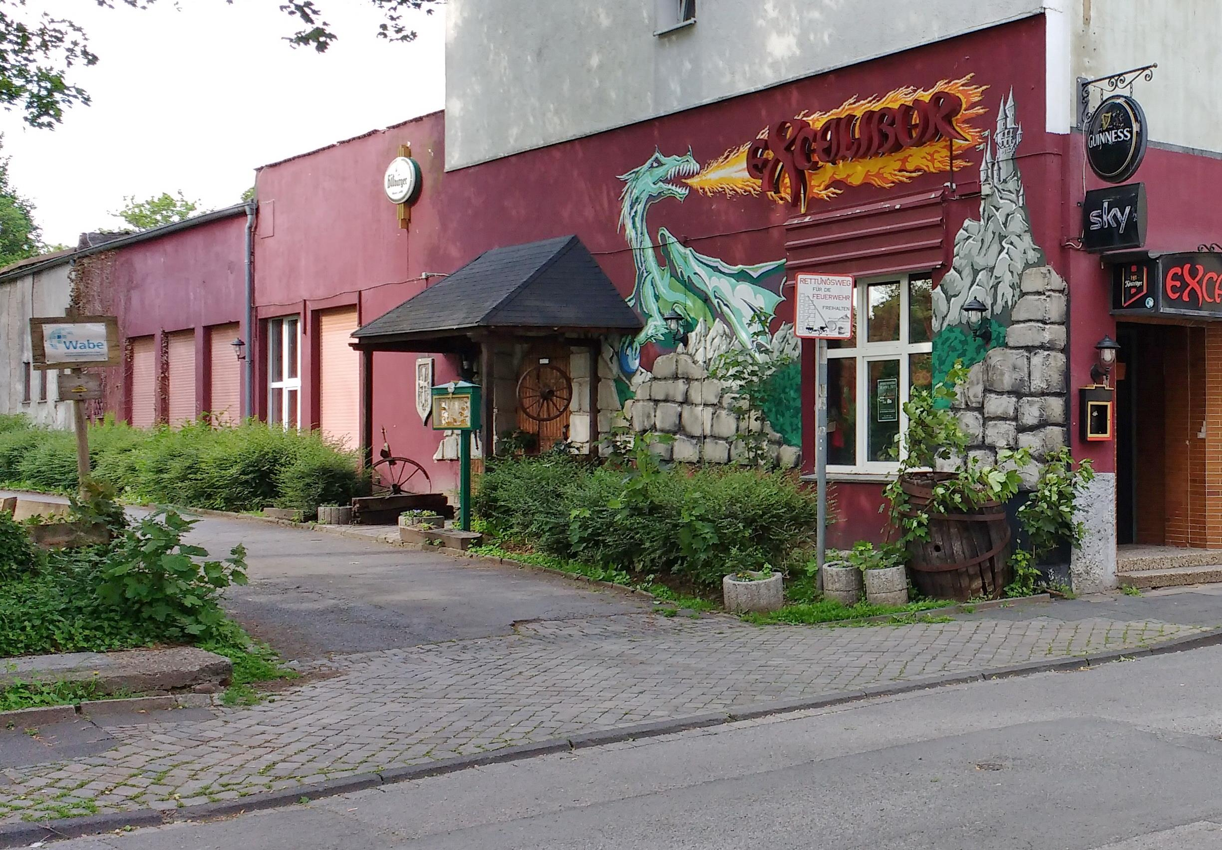 Pub Excalibur in Witten, Germany